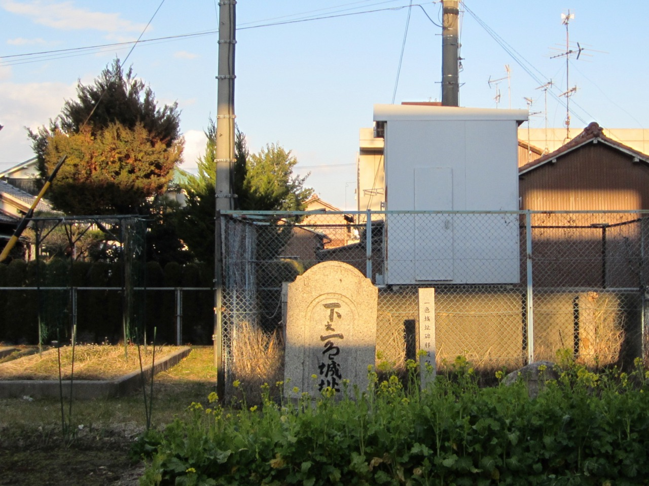 The site of Shimonoisshiki Castle in Nagoya, Aichi.